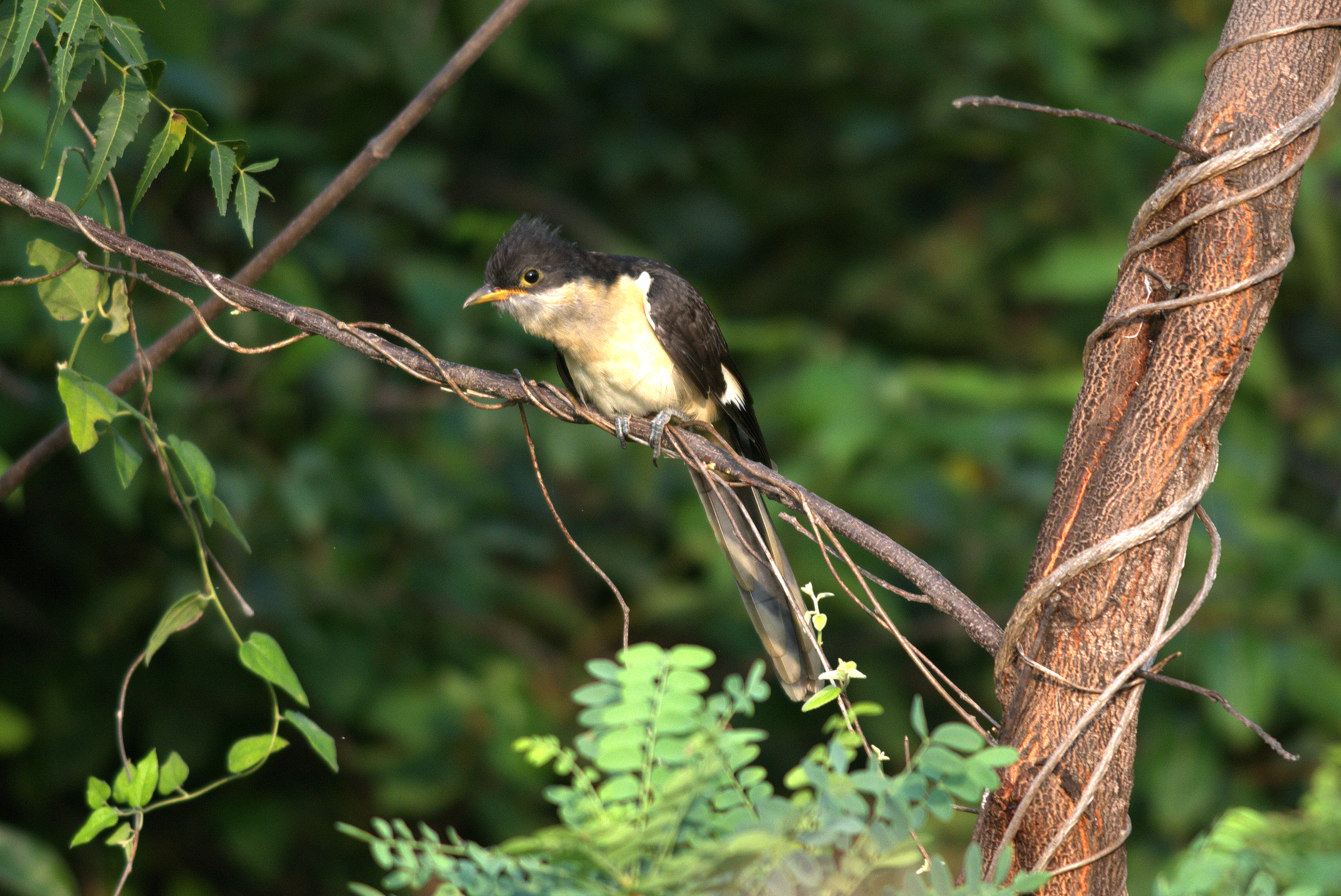 Pied Cuckoo Clamator jacobinus Juvenile by Dr. Raju Kasambe. Photo taken at Bagalkot, Karnataka, India.